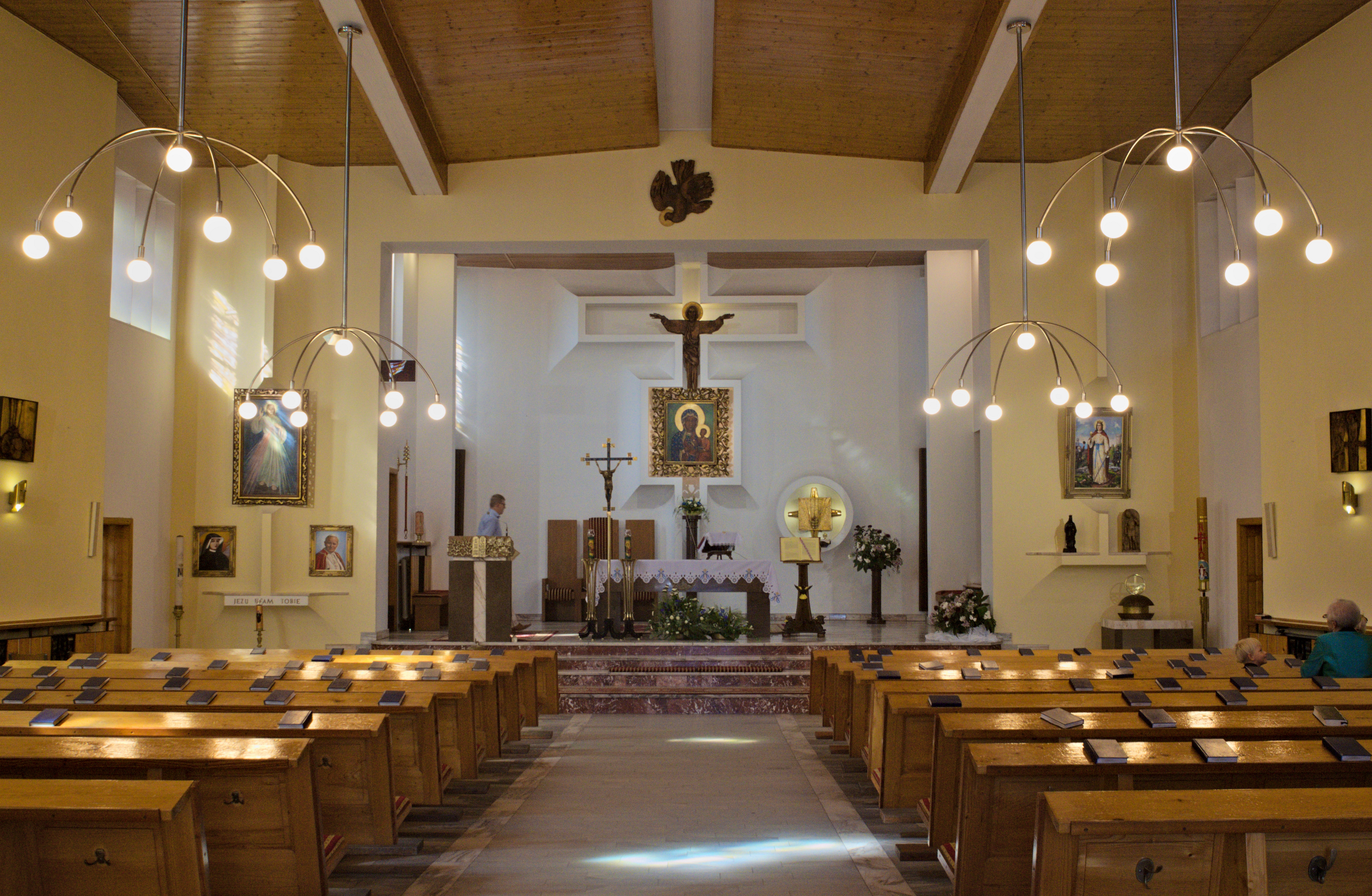 interior of church in Orzech, Poland, partially designed by Zygmunt Brachmański